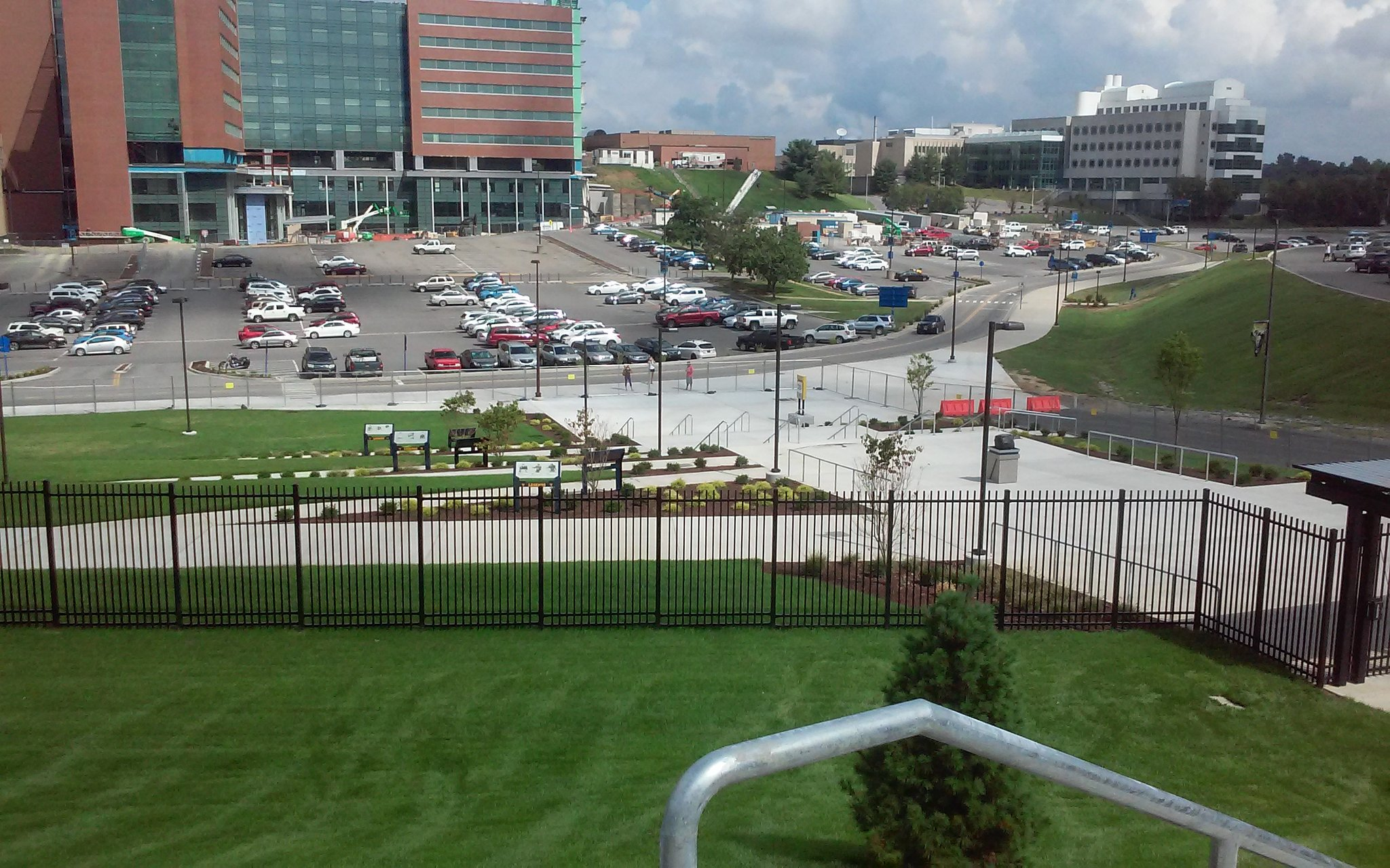 The new northeast gate, Mountaineer Mantrip Route, and "Legends Park" were finished in late Summer of 2016.